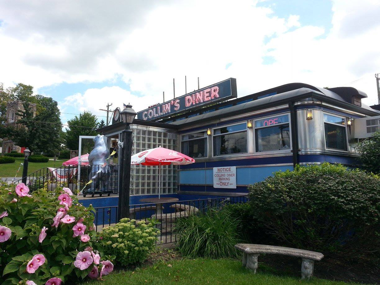 Collin's Diner, North Canaan, Connecticut, USA 2013. Jerry O'Mahony Diner Company